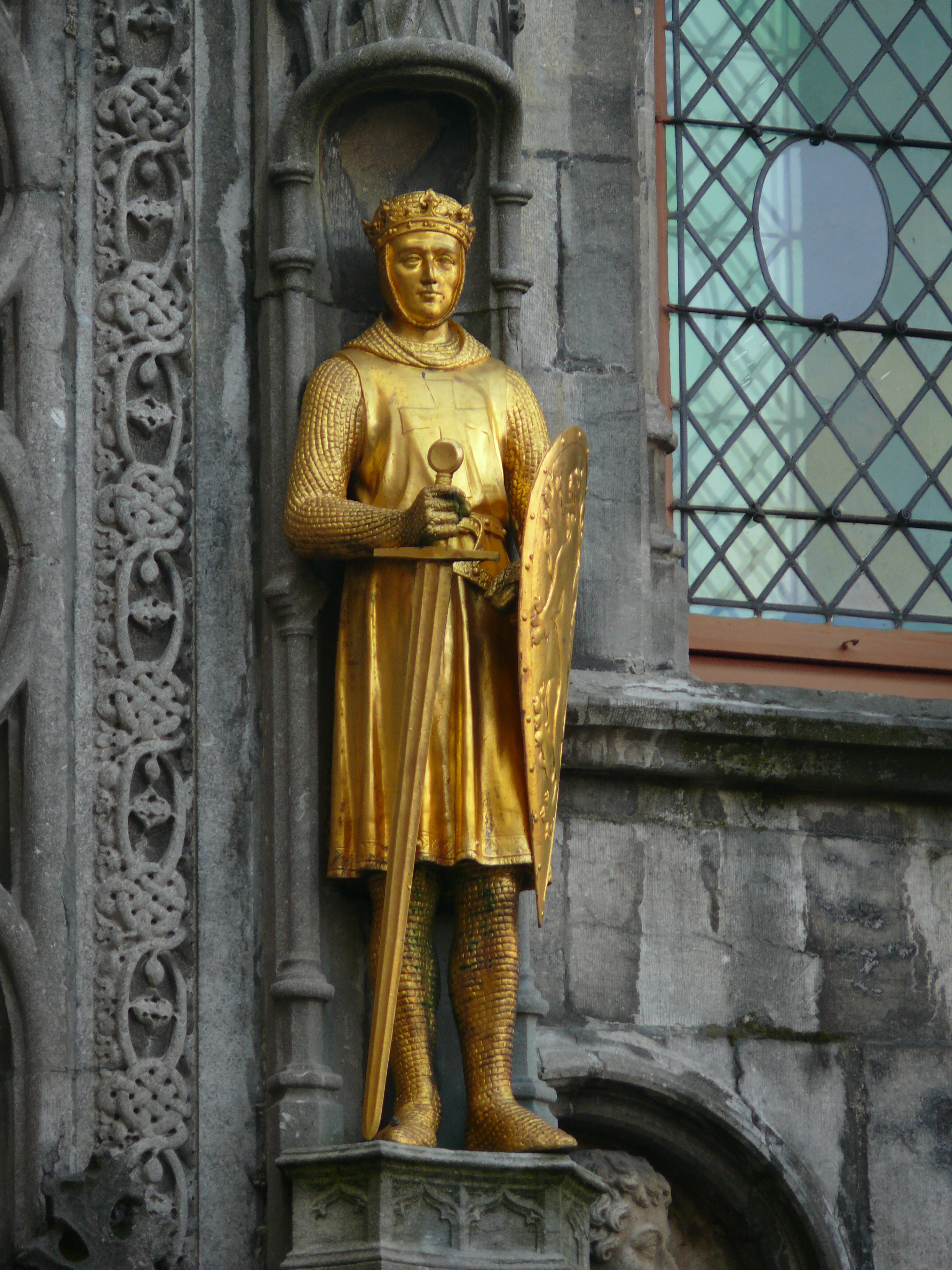 Guilded statue of Philip I, Count of Flanders on the façade of the Basilica of the Holy Blood in Bruges, Belgium.